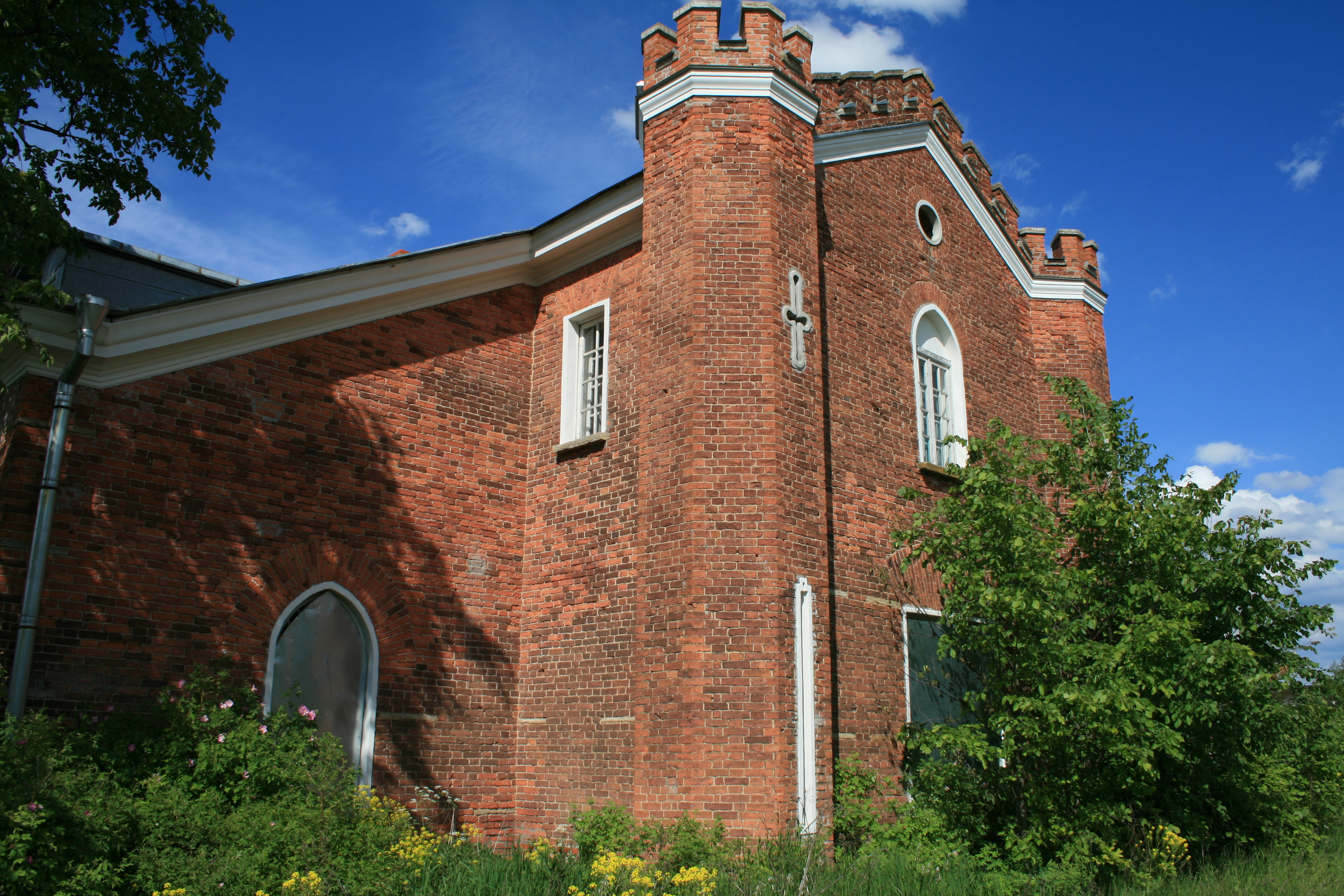 royal farm, house keeper, Alexander Park in Tsarskoe Selo